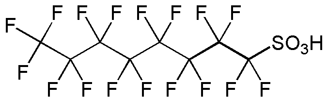 Structure of perfluorooctanesulfonic acid (acid form of PFOS).